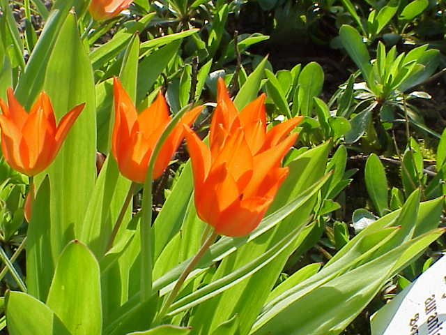 Species: Tulipa praestans Family: Liliaceae Image No. 2